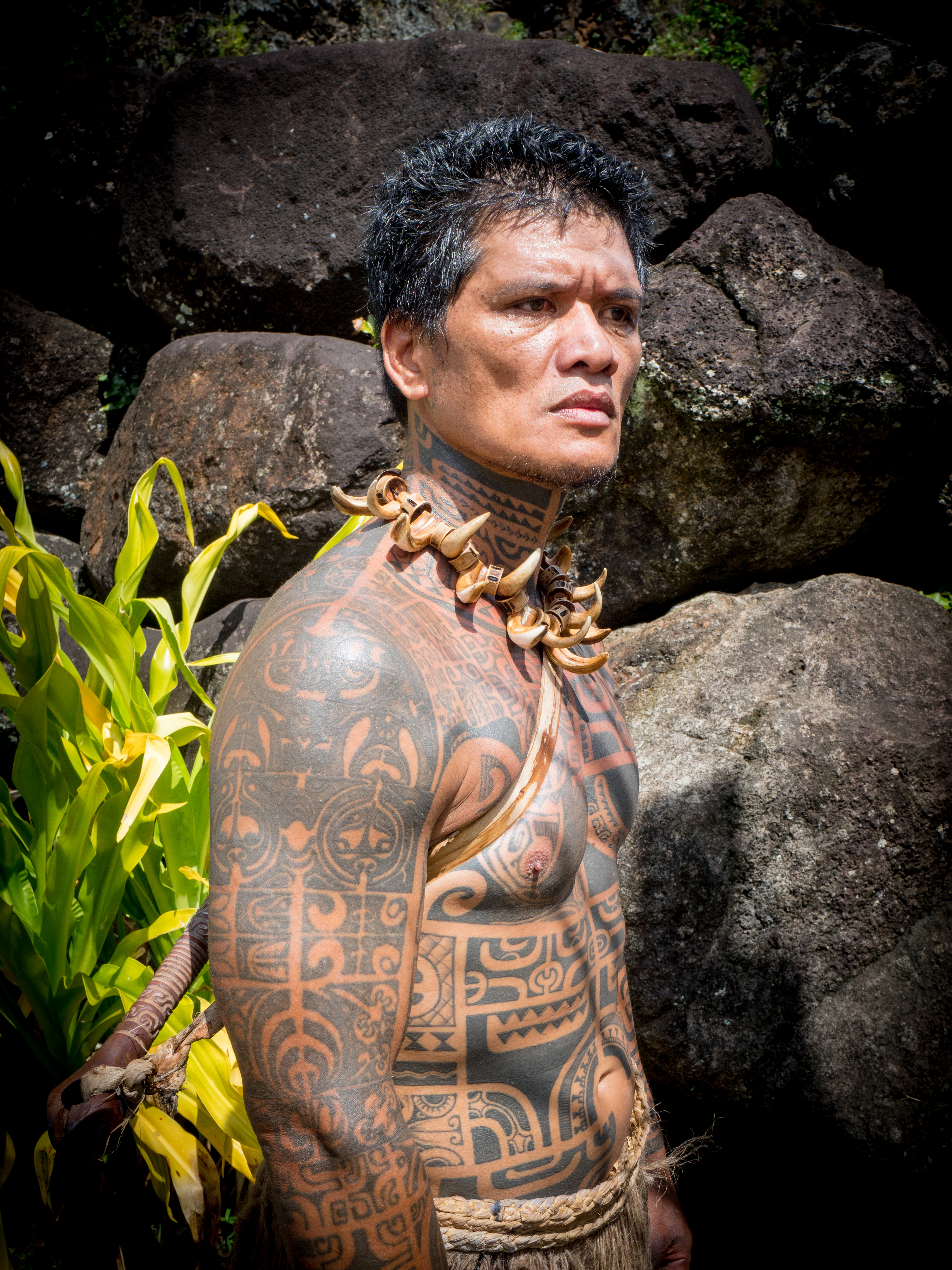 Native Marquesean in Hapatoni, Tahuata